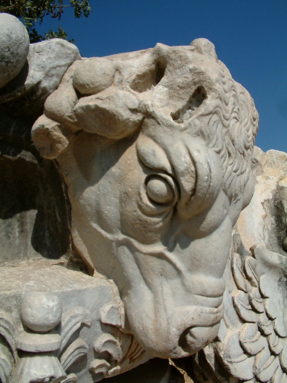 Bull head. Temple of Apollo in Didyma, Turkey.